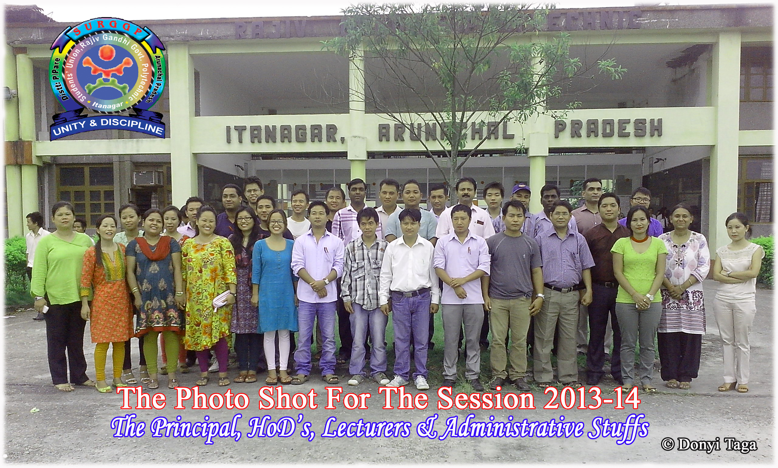 Teaching Staff of RGGP